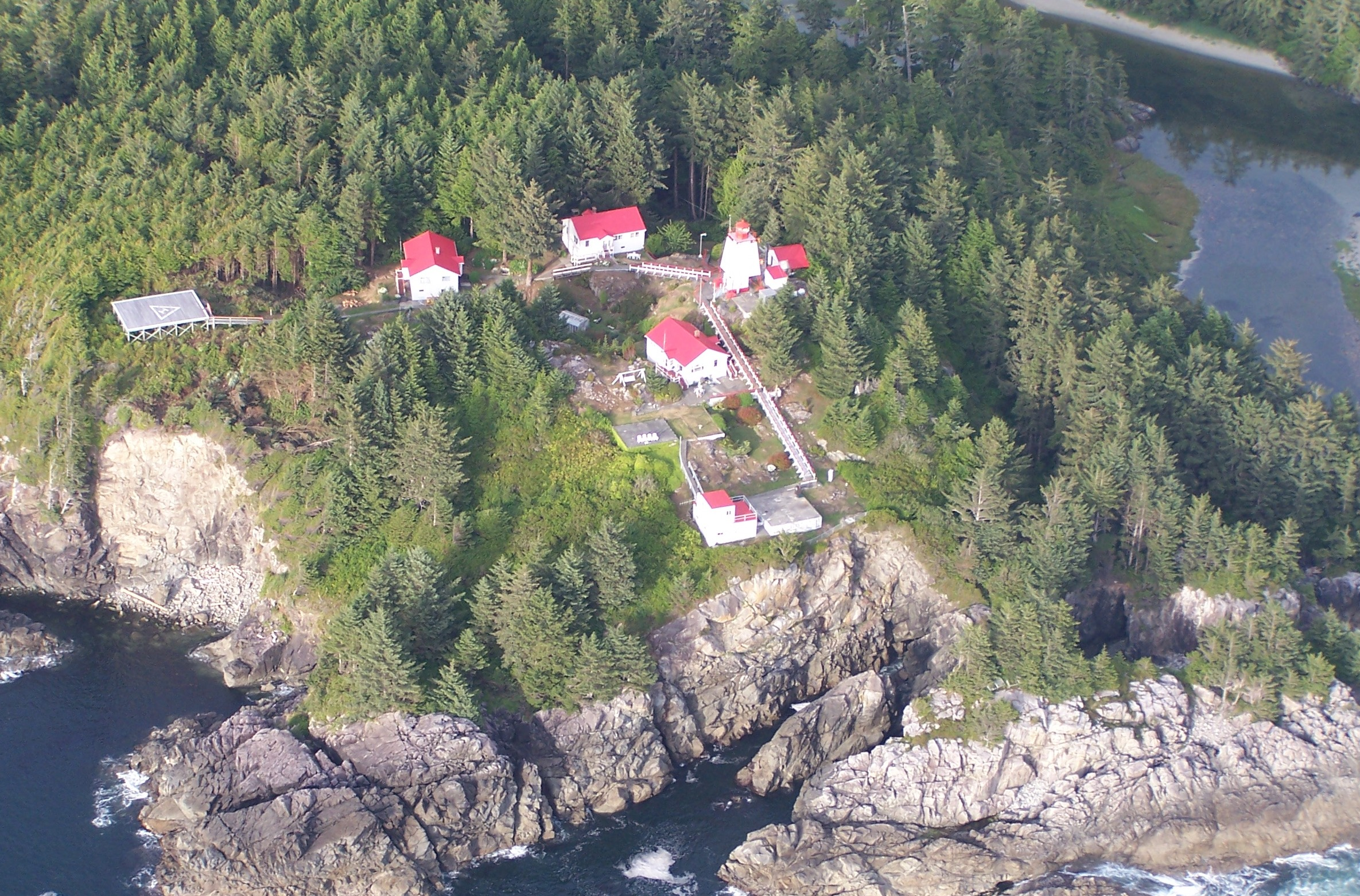 Cape Beale Lighthouse, Vancouver Island, BC, Canada. Photographed on July 19, 2006